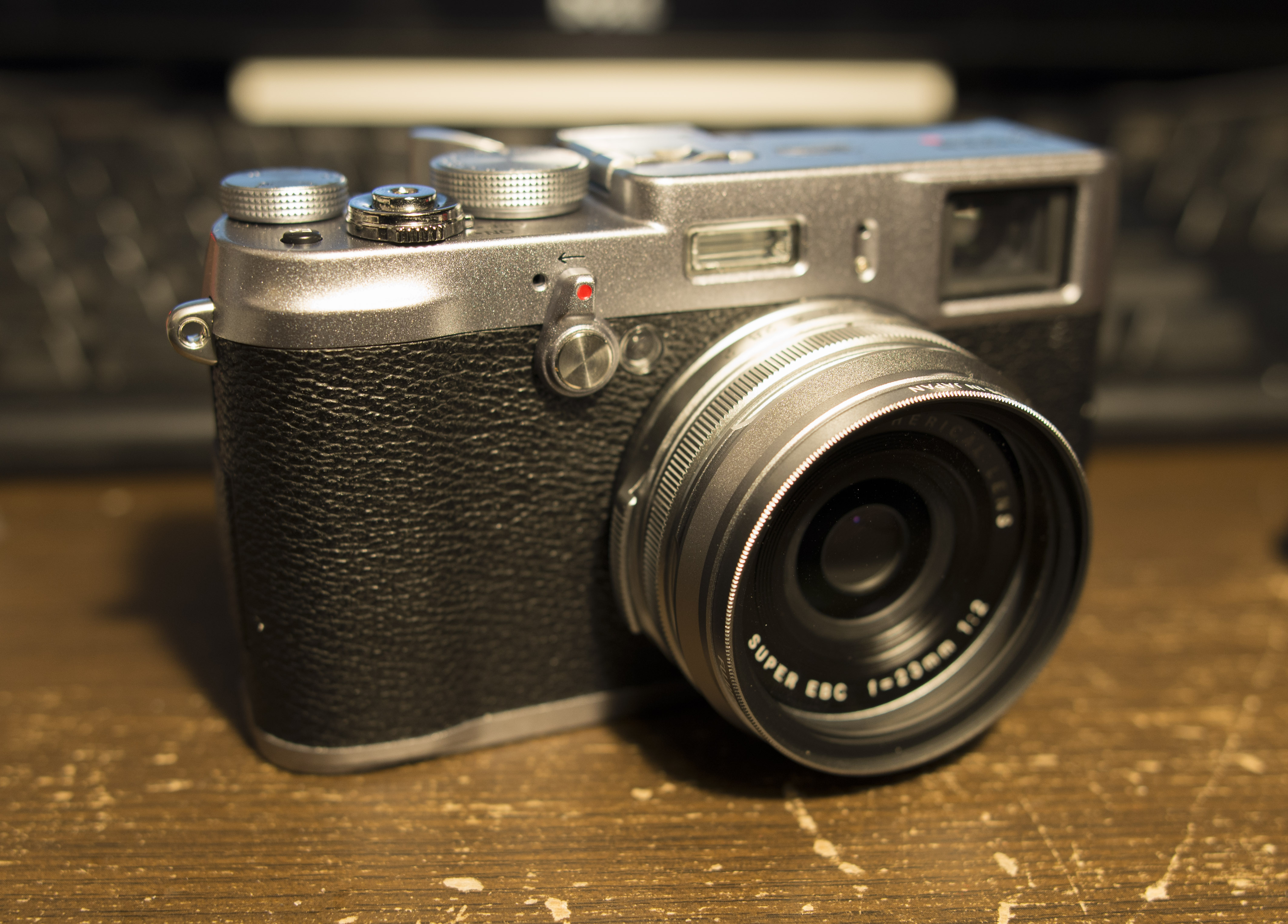 From the front